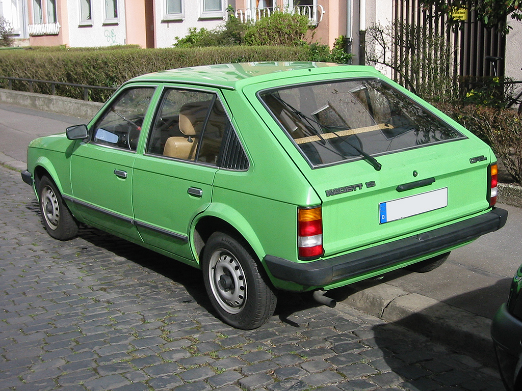 ~ Opel Kadett D 1.3 (1979-84) ~ cylindrée - displacement - Hubraum: 1 297 cm3, carb. Solex-Pierburg puissance - max. power output - Leistung: 44 kW @ 5 800 rpm couple maxi - torque - Drehmoment: 94 Nm @ 3 500 rpm transmission - gearbox - Getriebe: man. 4 Lxl: 4x1,64 m pneus - tires - Reifen: 145x13" réservoir - fuel tank - Benzintank: 42 l vol. coffre - trunk - Kofferraum: 380 l poids - tare - Gewicht: 870 kg V max. - top speed - Höchstgeschwind.: 145 km/h